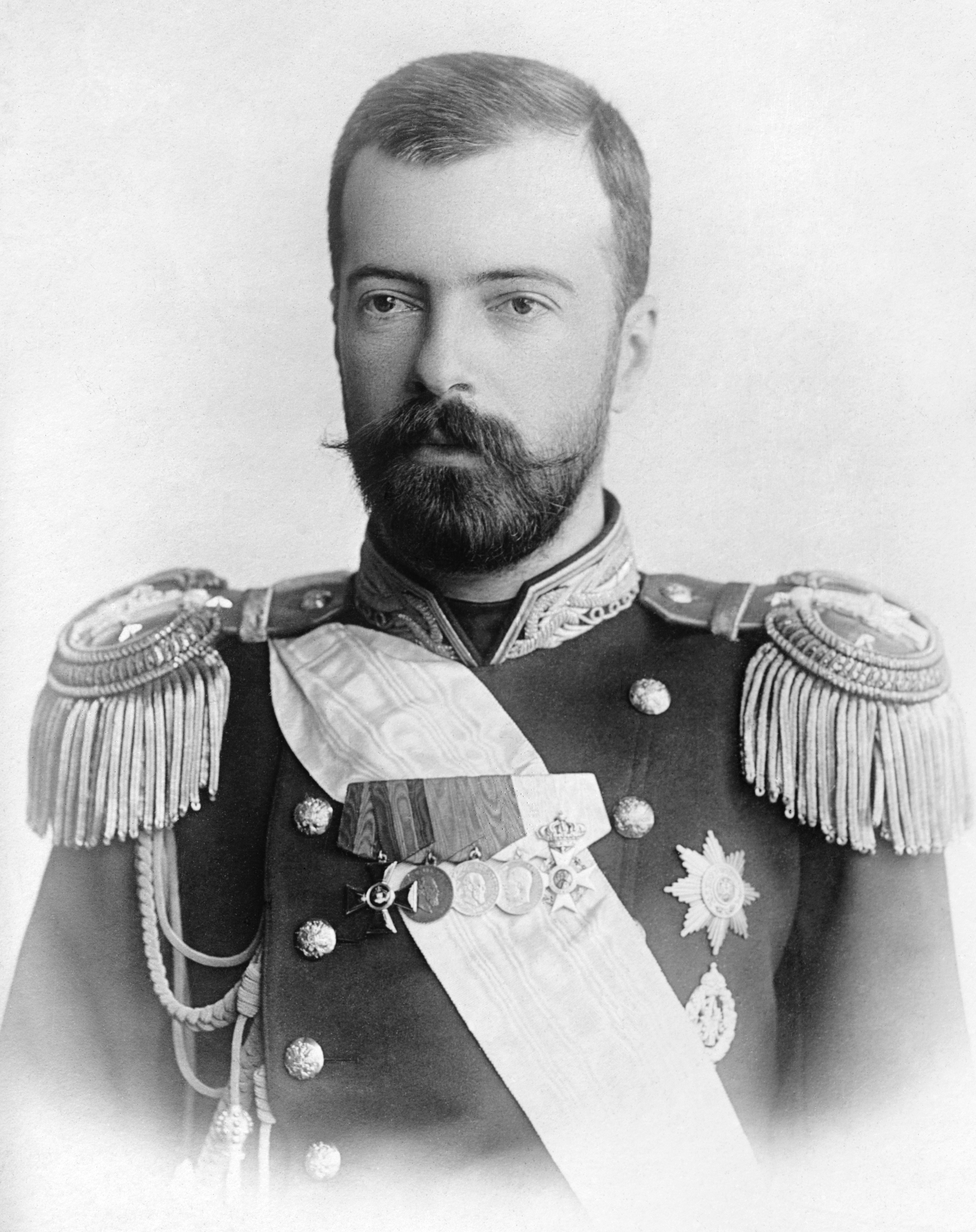 Bain News Service, publisher. Grand Duke Alex. Michaelovitch [no date recorded on caption card] 1 negative : glass ; 5 x 7 in. or smaller. Notes: Title from unverified data provided by the Bain News Service on the negatives or caption cards. Forms part of: George Grantham Bain Collection (Library of Congress). Format: Glass negatives. Repository: Library of Congress, Prints and Photographs Division, Washington, D.C. 20540 USA, [1] General information about the Bain Collection is available at [2] Persistent URL: Call Number: LC-B2- 2655-1